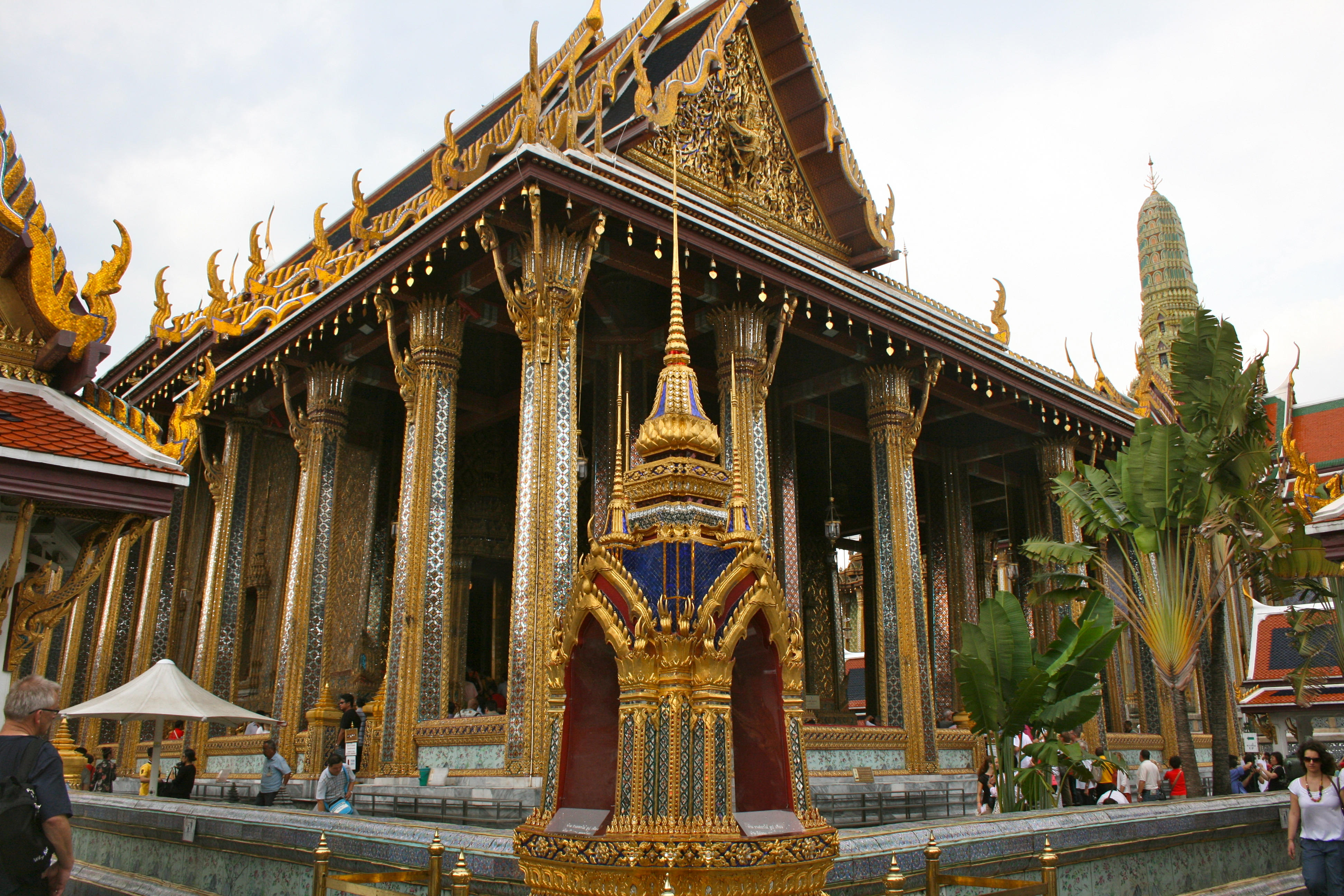 The Emerald Building which houses THe Emerald Buddha